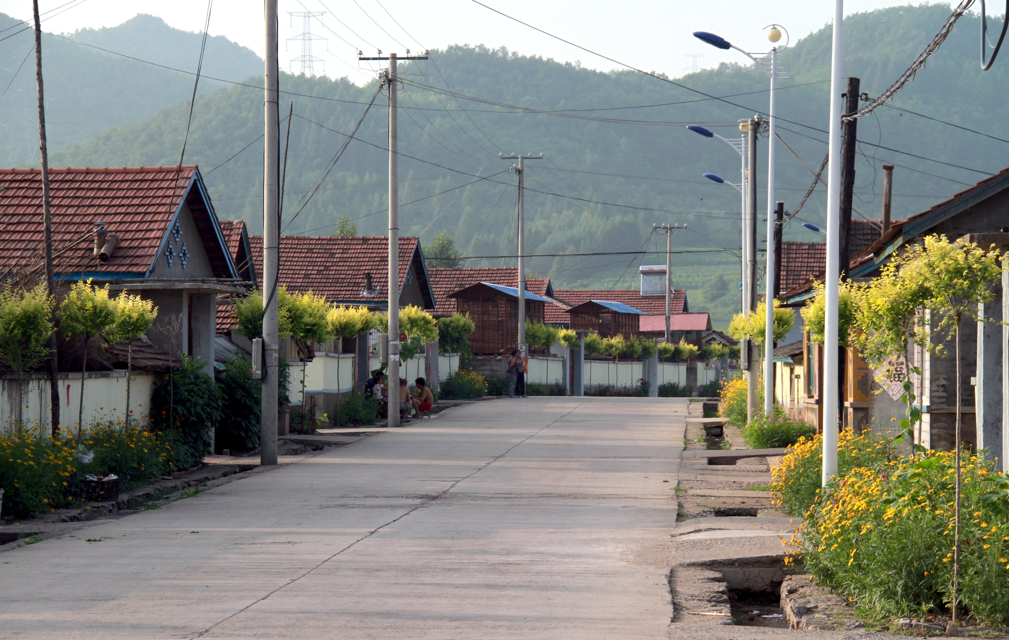 Photograph of the main street of a small rural village in Jilin Province, China.